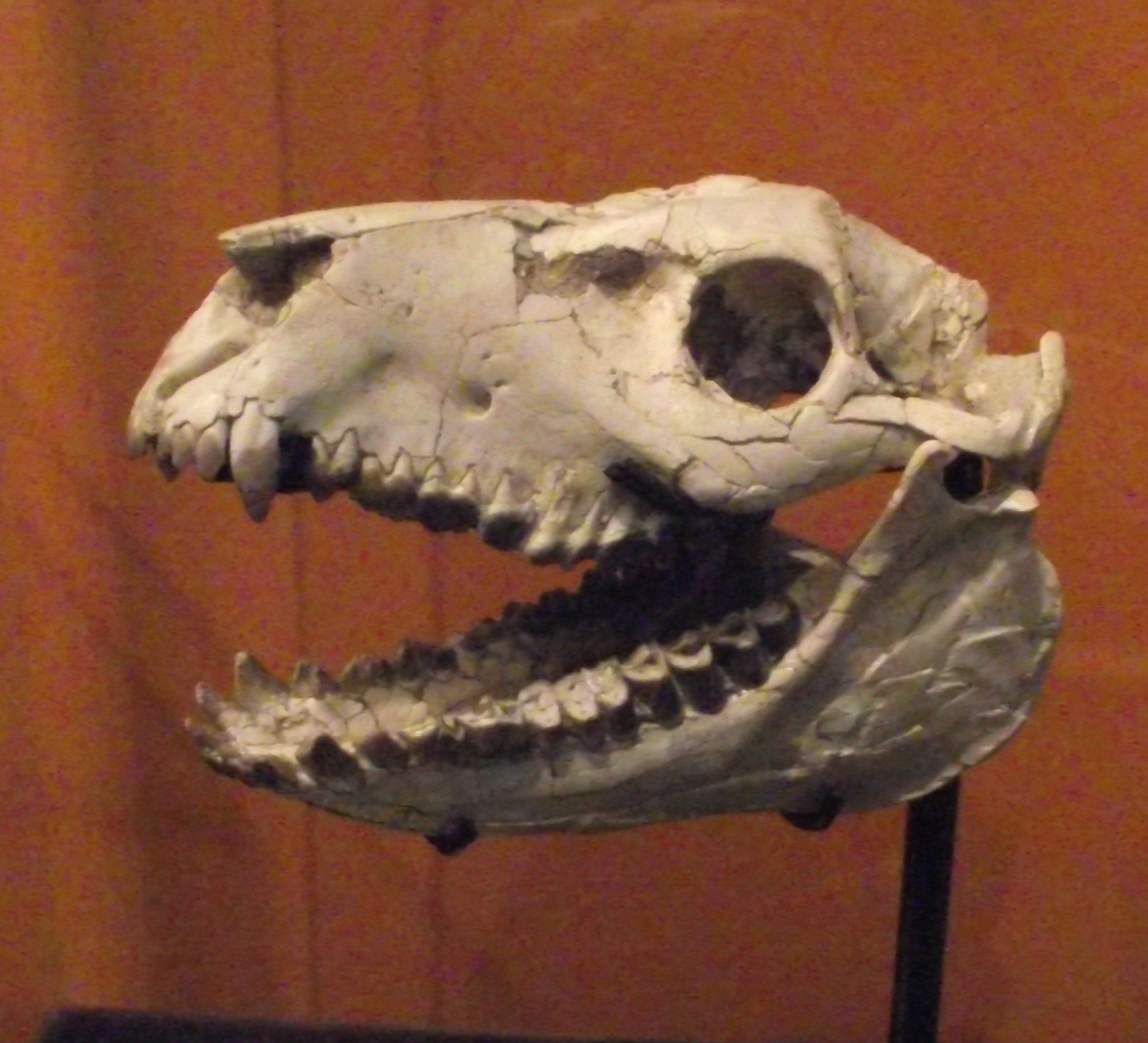 Skull of Mesoreodon sp. from San Diego County, California. Photographed at the San Diego Natural History Museum, California, USA.